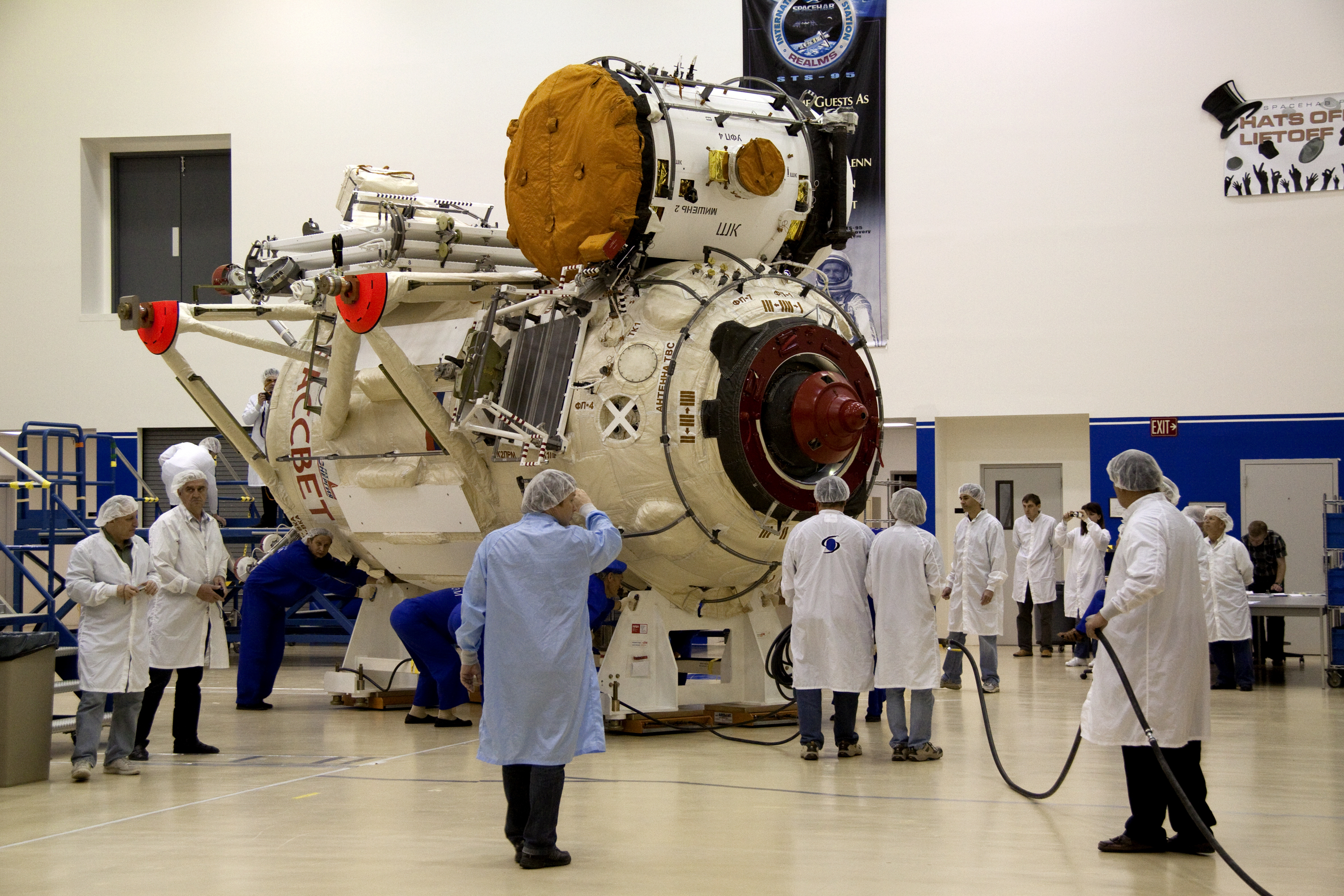 In the Astrotech payload processing facility at Port Canaveral, Fla., preparations are under way to place the Russian-built Mini-Research Module-1, or MRM-1, into the transportation container in which it will be moved to the Space Station Processing Facility at NASA's Kennedy Space Center. The six-member crew of space shuttle Atlantis' STS-132 mission will deliver an Integrated Cargo Carrier and the MRM-1, known as Rassvet, to the International Space Station. The second in a series of new pressurized components for Russia, MRM-1 will be permanently attached to the Earth-facing port of the Zarya control module. Rassvet, which translates to "dawn," will be used for cargo storage and will provide an additional docking port to the station. STS-132 is the 34th mission to the station and the 132nd shuttle mission overall. Launch is targeted for May 14.